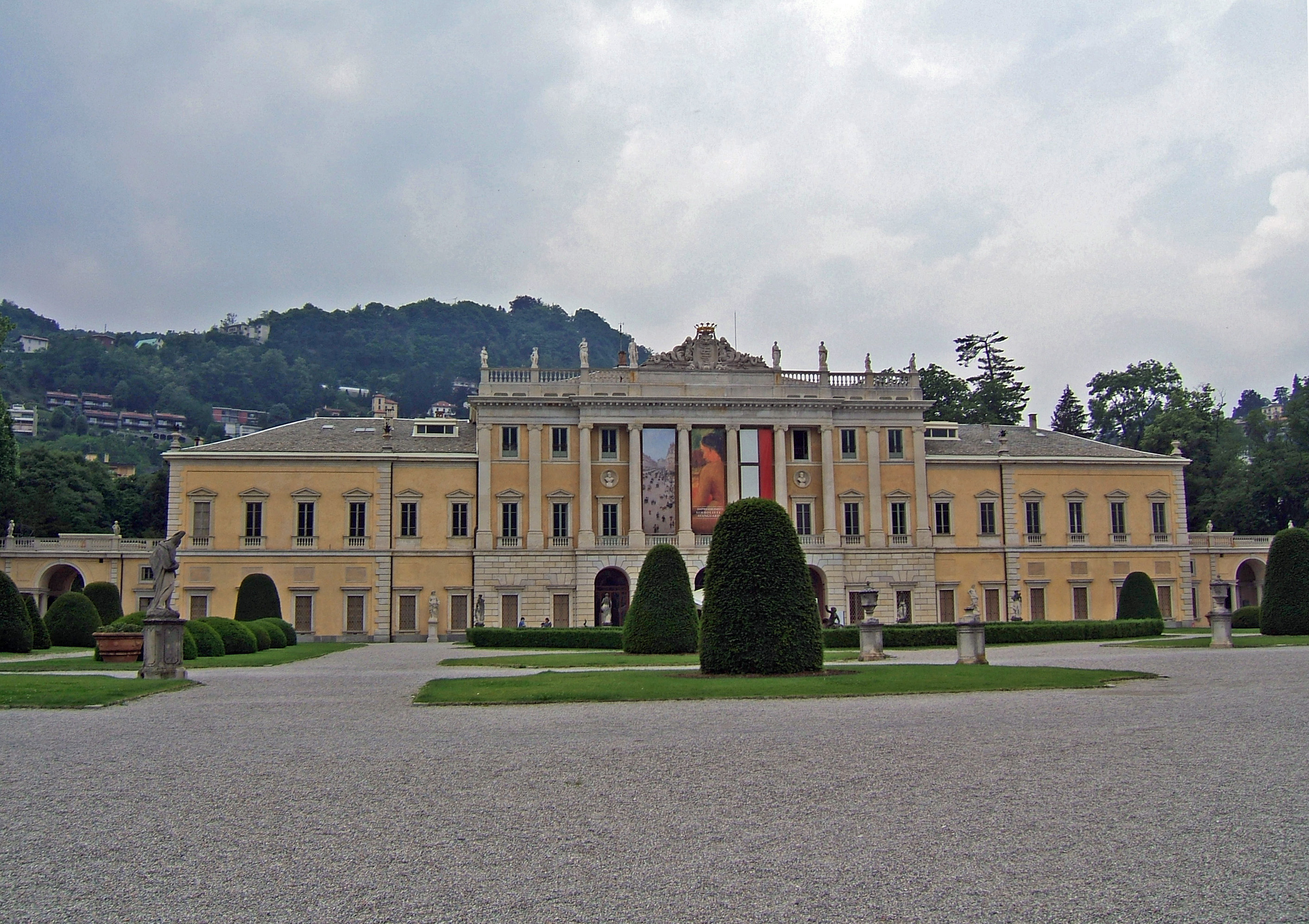 Front View of Villa Olmo a Como